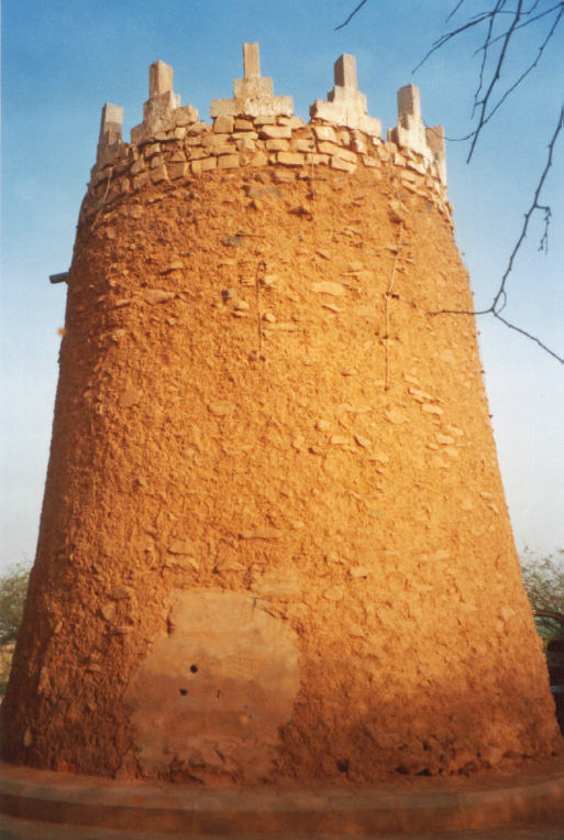 مرقب عيون الجواء